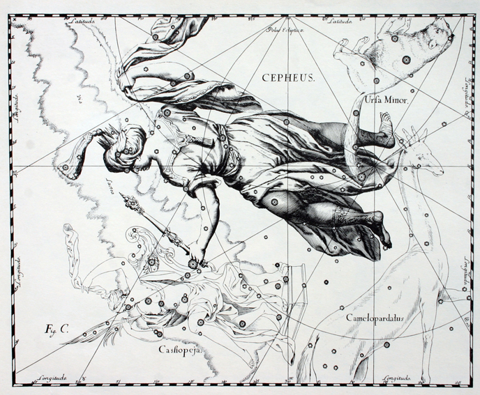 The Cepheus constellation from Uranographia by Johannes Hevelius. The view is mirrored following the tradition of celestial globes, showing the celestial sphere in a view from "outside"